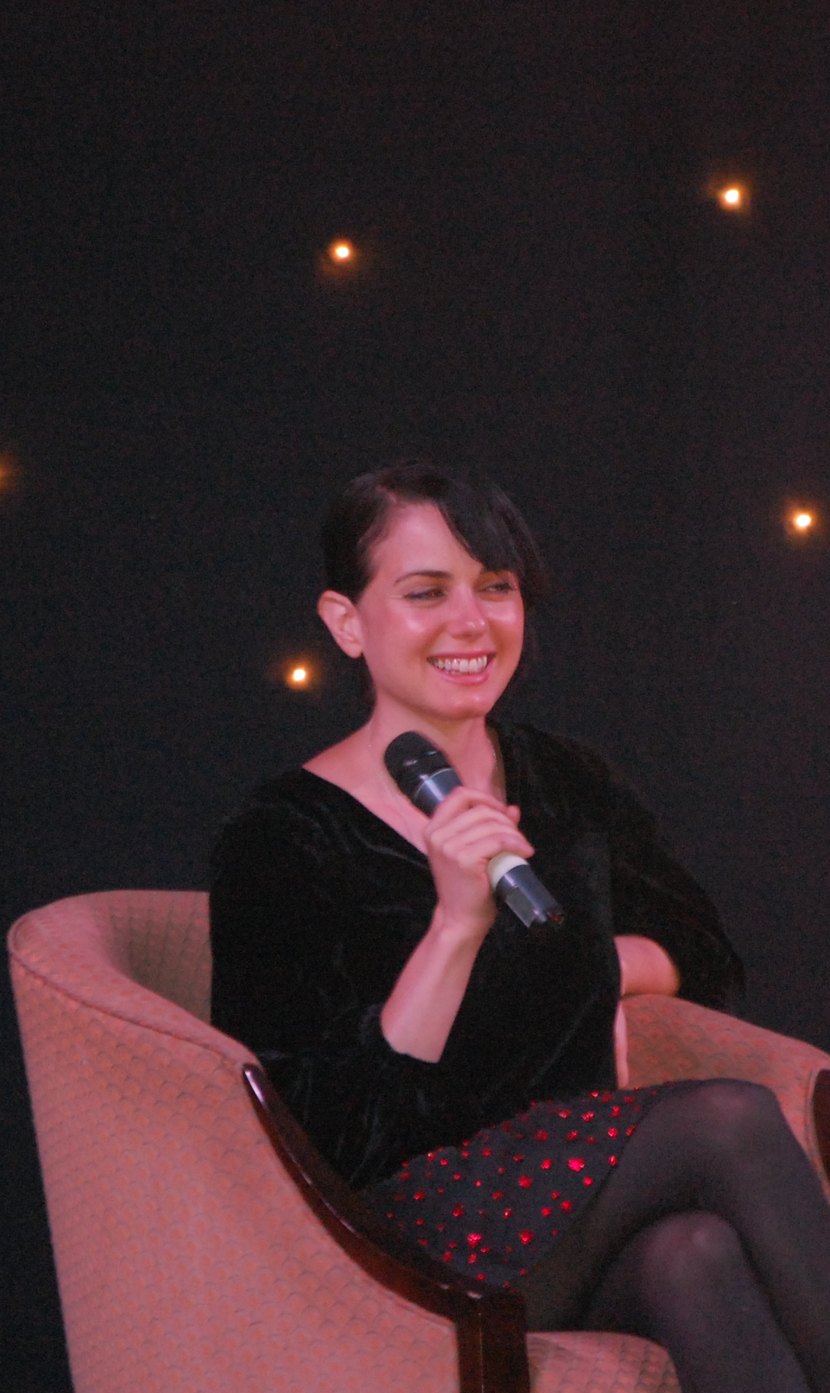 Canadian actress Mia Kirshner in 2009, during interview